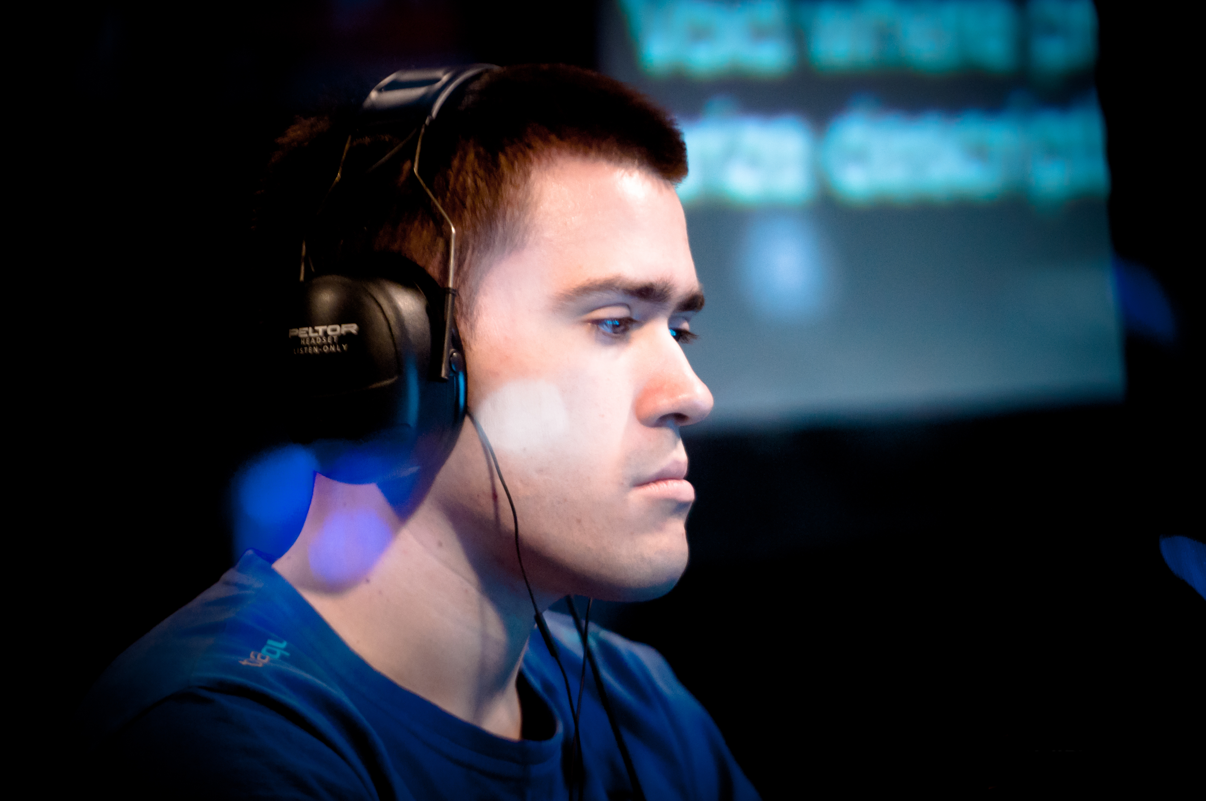 Jonathan Walsh AKA Jinro